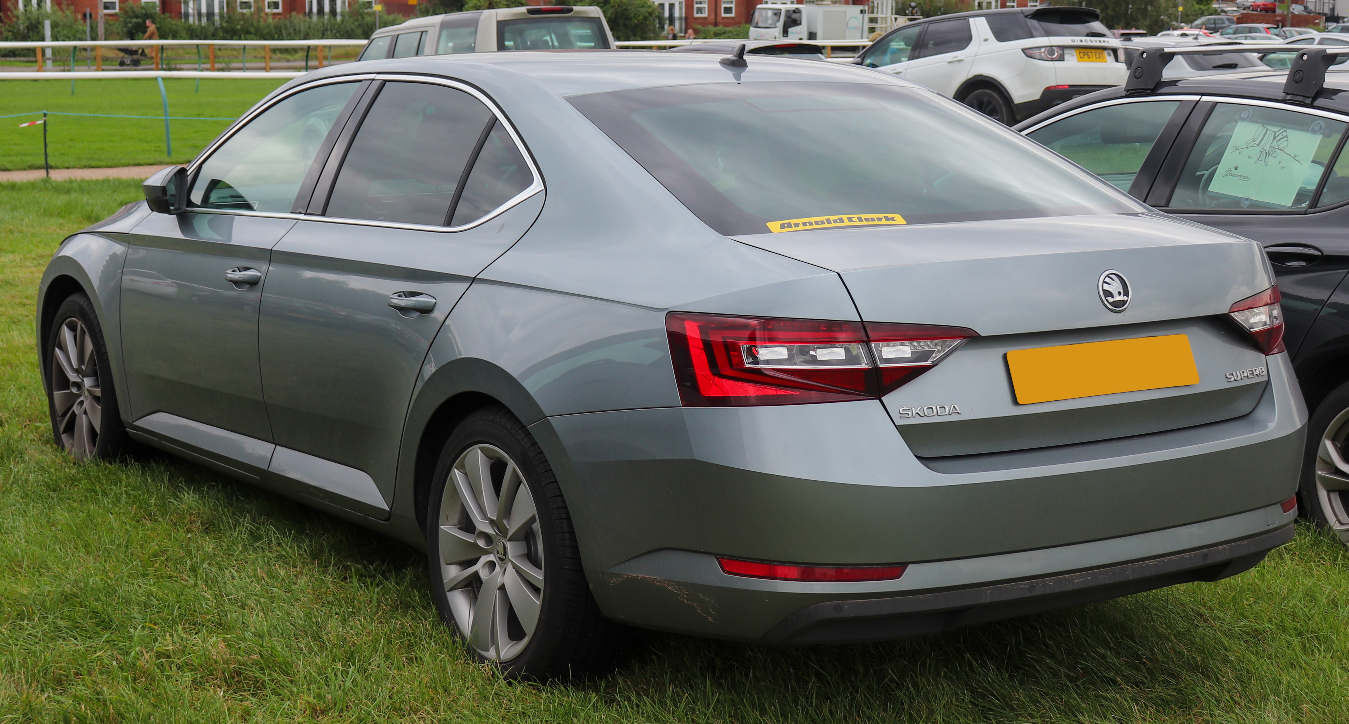 2019 Skoda Superb SE L Executive TDi 2.0 Rear